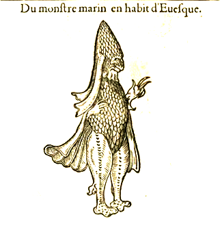 Sea bishop (sea monster)